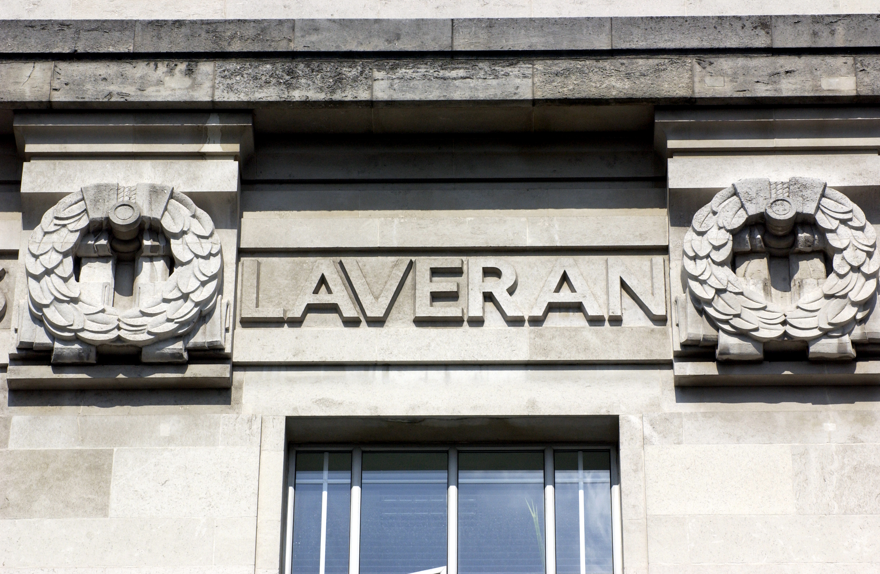 Charles Louis Alphonse Laveran's name as it features on the LSHTM Frieze